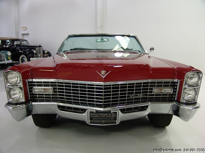 This is a picture of a vehicle (name of it is on the file name).